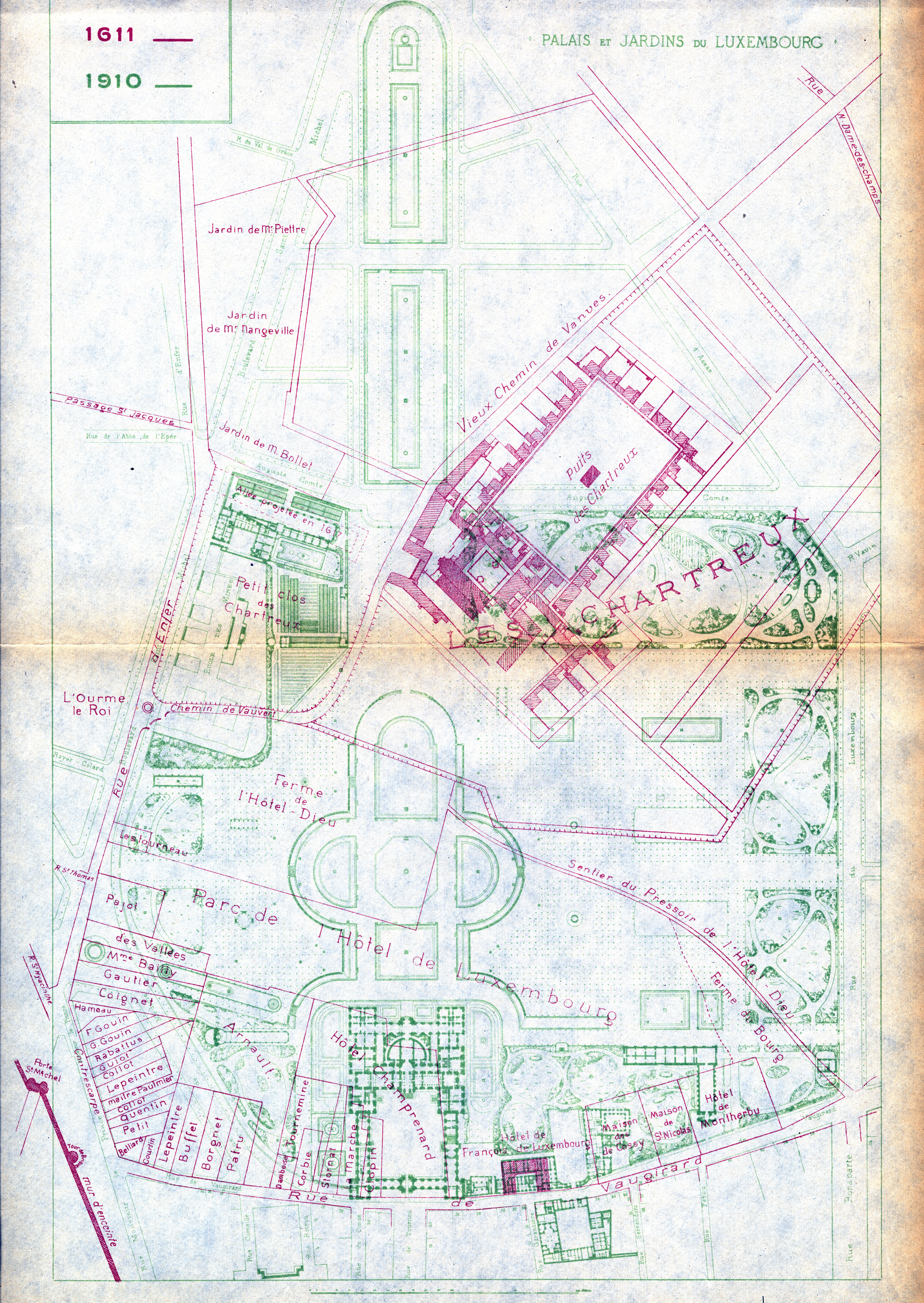 General site plan of the Luxembourg Palace in Paris in 1910 (green) and 1611 (red, before its construction). This is a scan of the plan from a copy of a book which reproduces it (Hustin 1910); a Google scan of the book can be found at Hathitrust [1], but the quality of the image of this particular plate [2] is extremely poor.